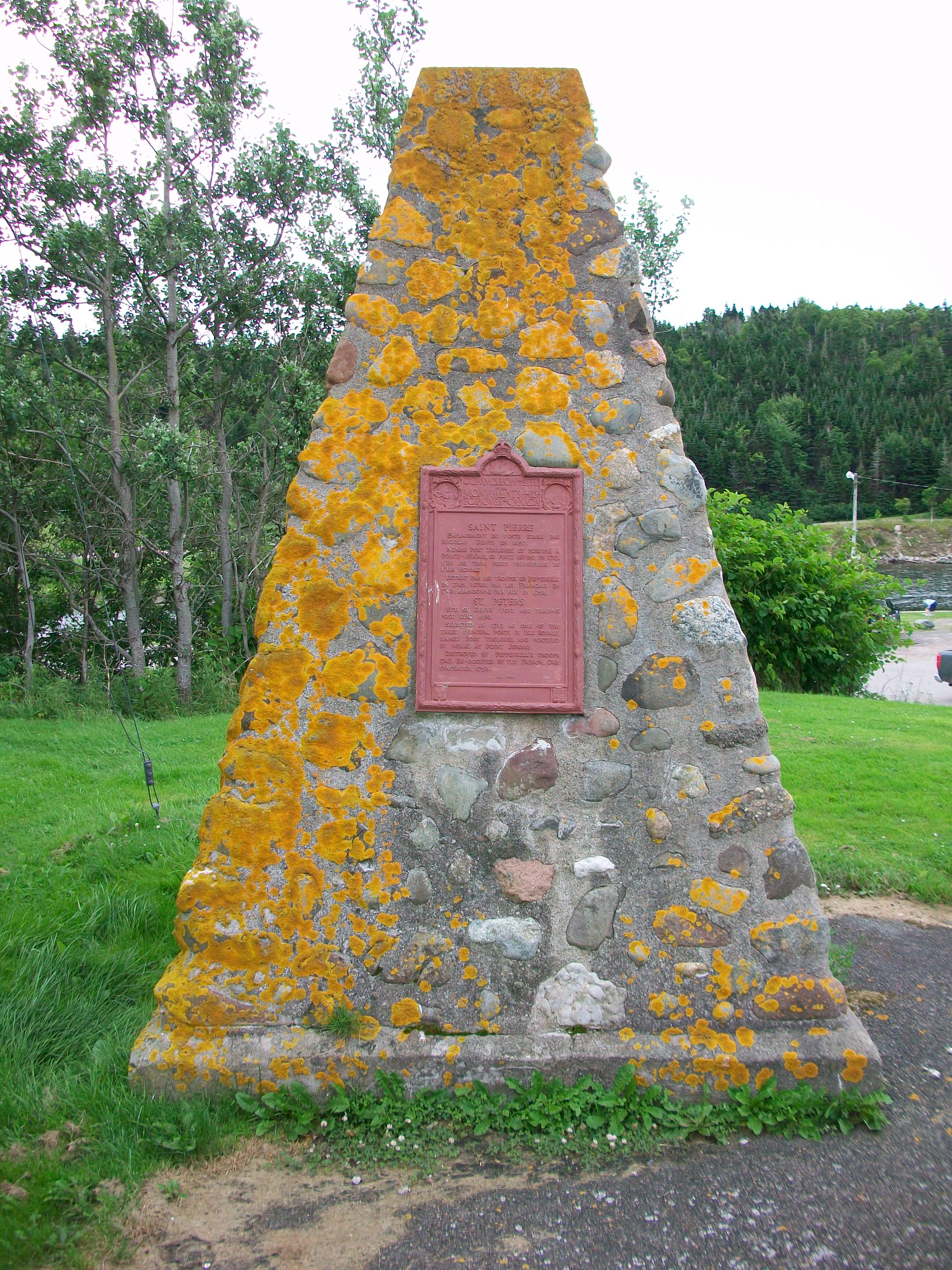 Monument raised in the 1930s on the site of Nicholas Denys' fortified trading post (1650 - 69), Denys Street, St. Peter's, Nova Scotia. St. Peter's